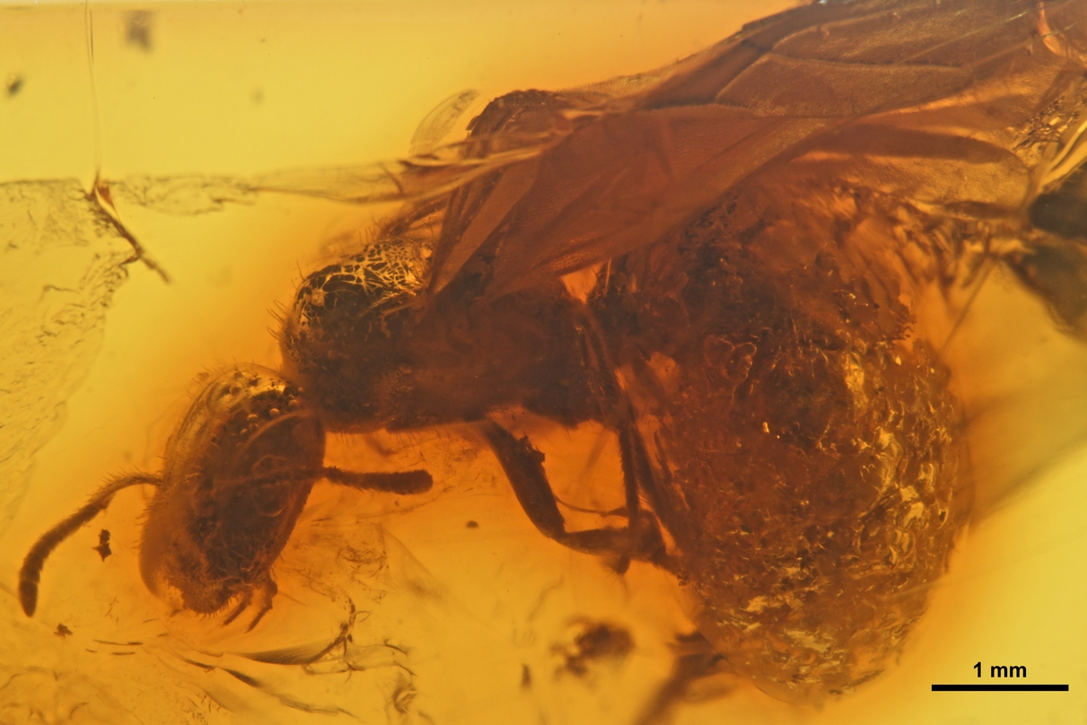 Profile view of the Drymomyrmex fuscipennis holotype queen. Middle Eocene; Baltic amber, Samland Peninsula, Kalingrad, Russia Geowissenschaftliches Museum der Universität Göttingen, University of Göttingen, Göttingen, Germany; specimen GZG-BST04158